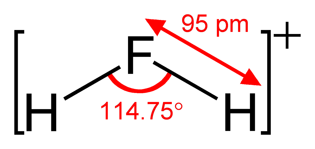 Structure and dimensions of the fluoronium ion, H2F+